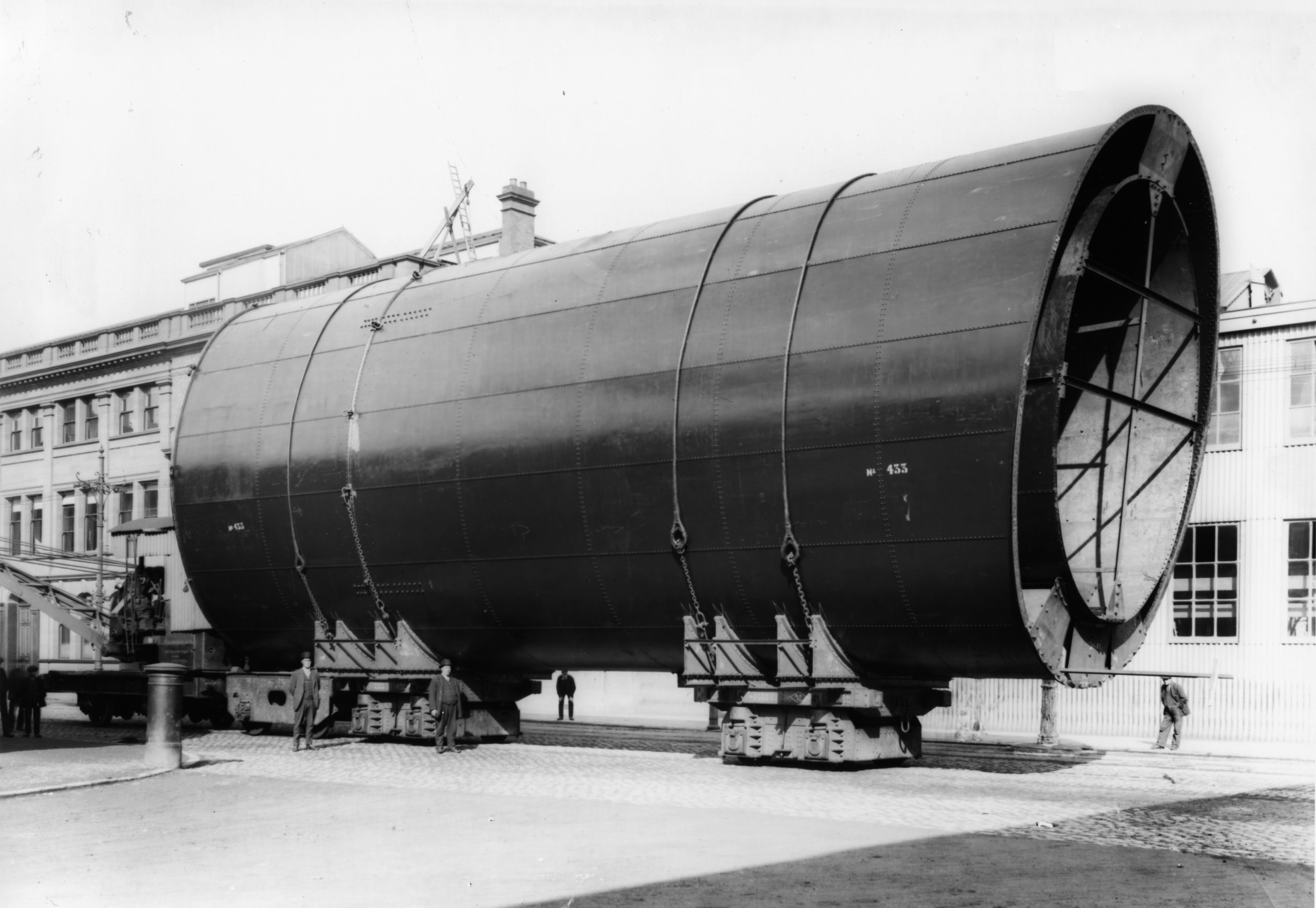 Funnel for HMHS Britannic (Yard number 433), the sister ship of HMS Olympic (No. 400) and RMS Titanic (No. 401), being transported to the Harland and Wolff shipyard in Belfast.